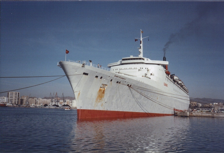 QE2 1982 in Malaga painted light charcoal grey colour. Taken by John Beniston. Photo also on Yahoo Group welovecruising Originally posted on en.wikipedia with same name by User:Palmiped.